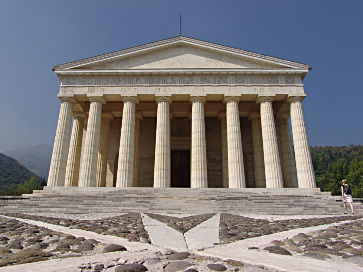 [Antonio Canova